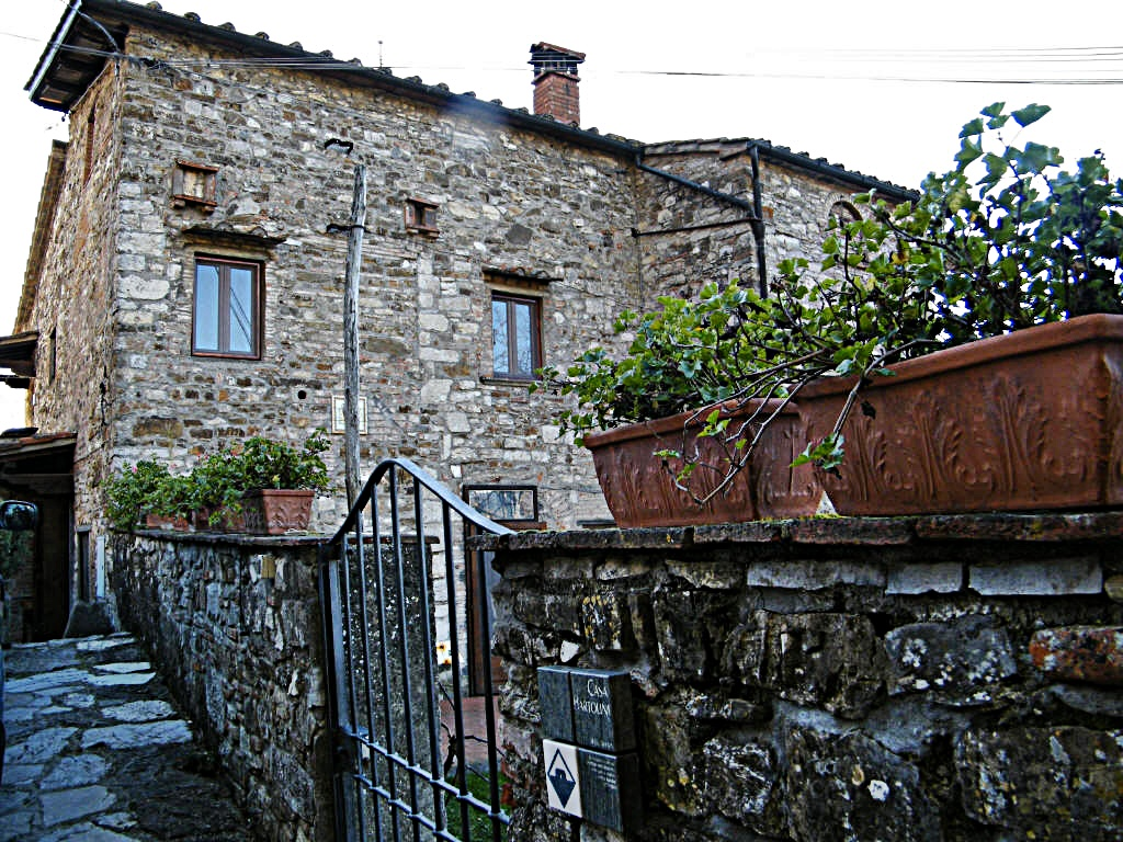 Casa Bartolini in Savignano